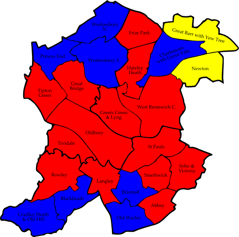 A map of the results of the 2008 Sandwell Council election. Colour legend by wards won: Labour party Conservative party Liberal Democrats